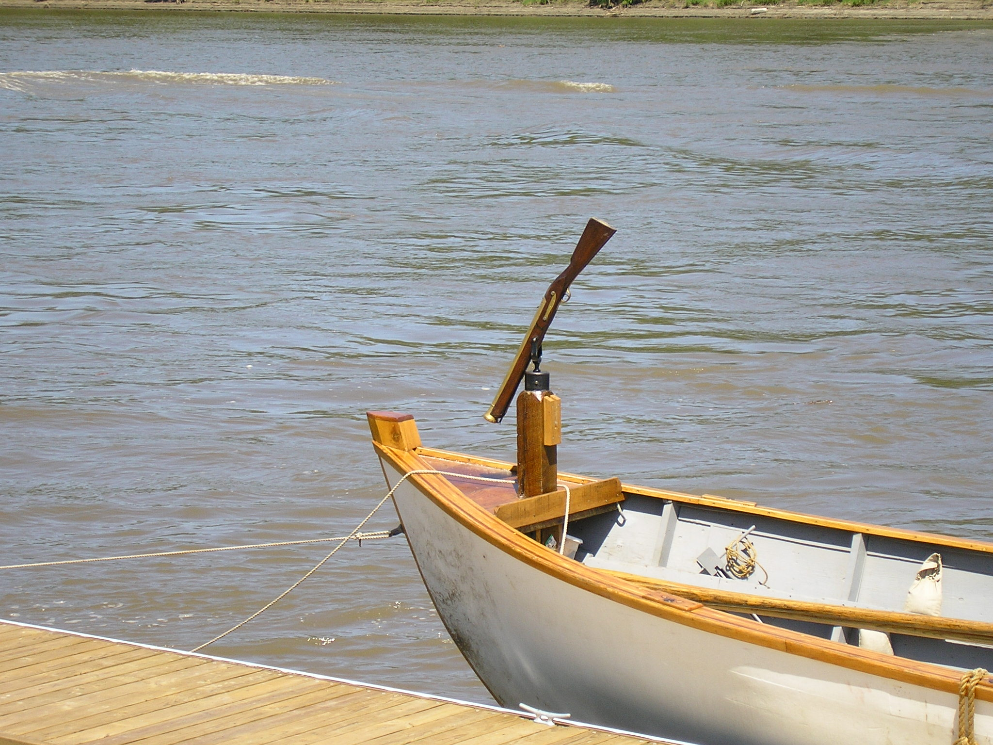 This image shows the details of the pintle-mounted gun at the front of a recreation of Lewis and Clark's "White” Pirogue.